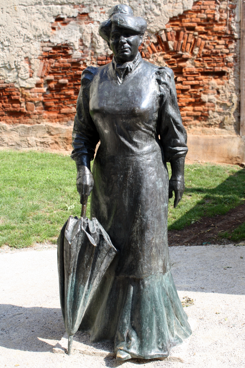 Monument to Marija Jurić Zagorka, in Zagreb, Croatia